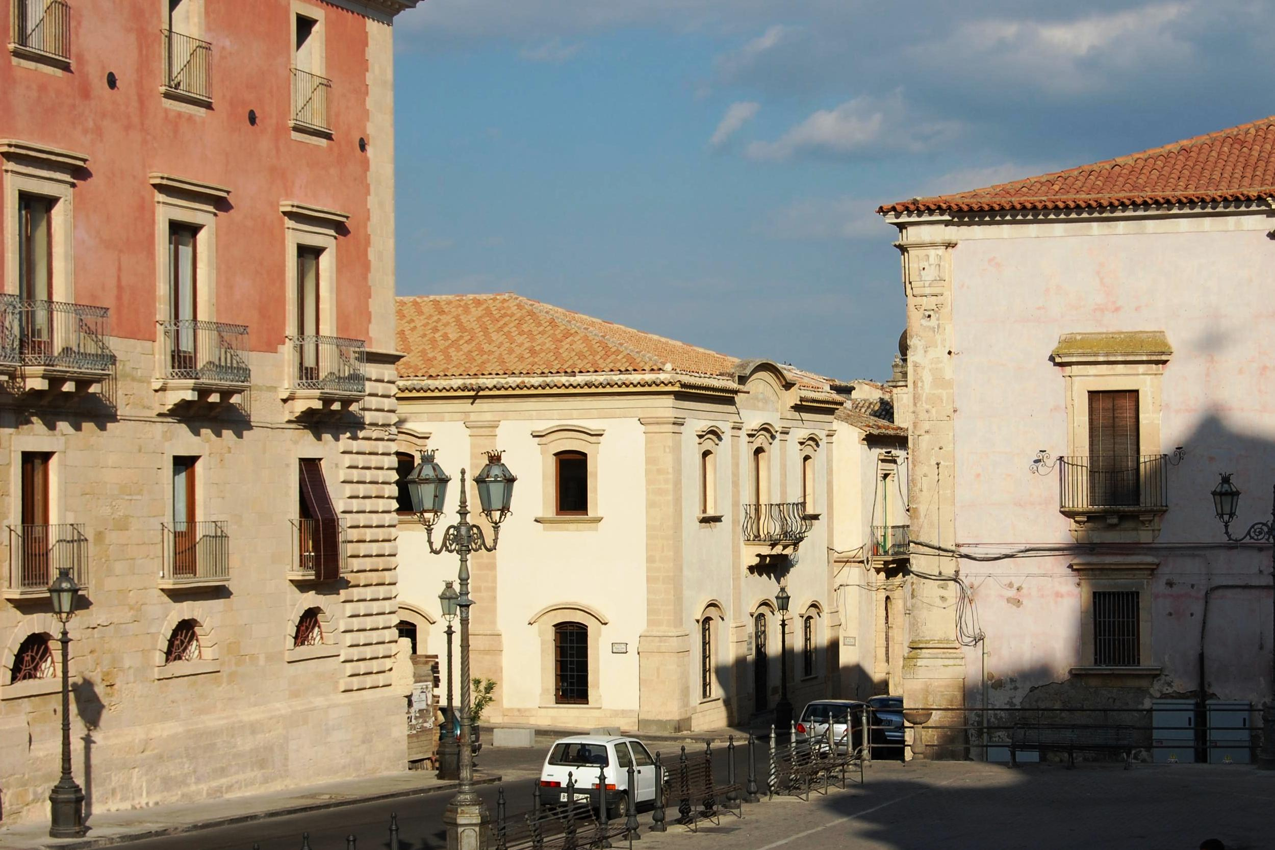 Maiorana Palace